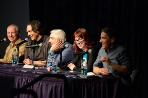 Northeast Conference on Science and Skepticism (NECSS) 2013 at Fashion Institute of Technology (FIT) NYC